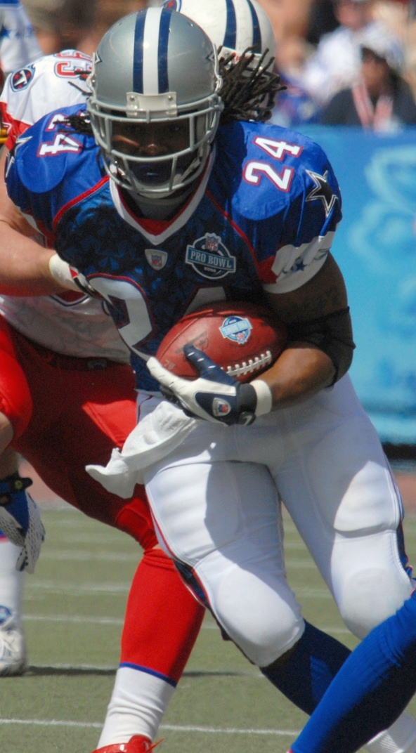 HONOLULU (Feb. 10, 2008) Dallas Cowboys running back Marion Barber (#24), a member of the NFC team, breaks a tackle during the 2008 Pro Bowl game at Aloha Stadium. The NFC beat the AFC 42 to 30. U.S. Navy photo by Mass Communication Specialist 1st Class James E. Foehl (Released) →This file has been extracted from another file: MarionBarber-2008ProBowl.JPEG.